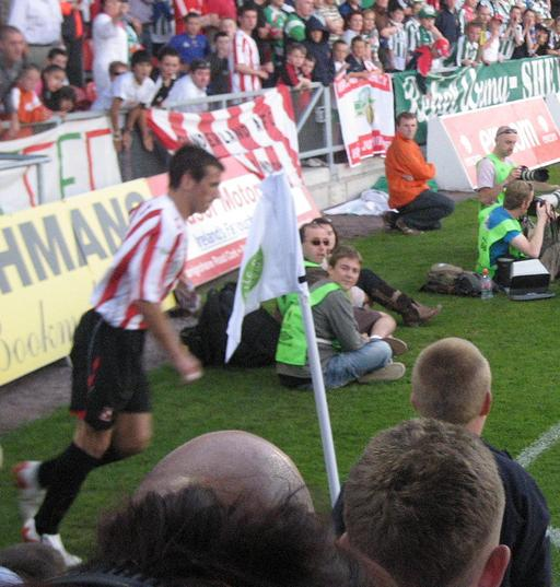 Liam Miller taking a corner kick